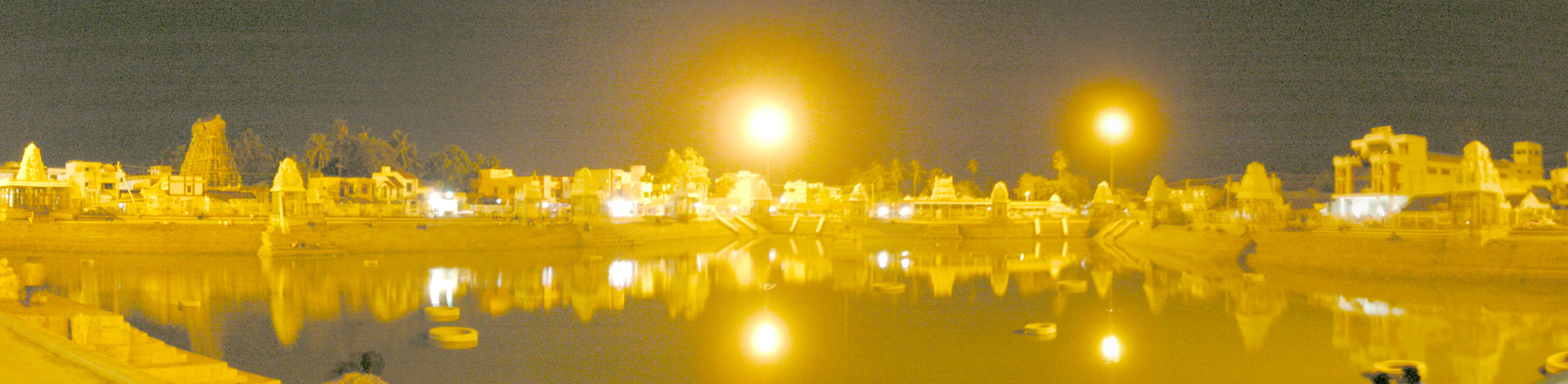 Mahamaham